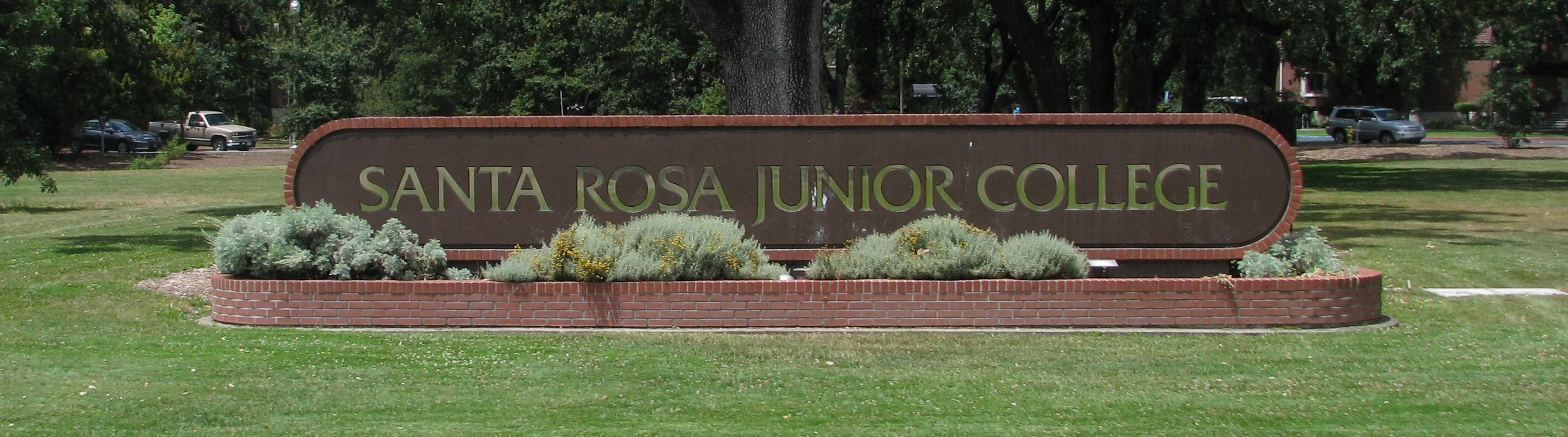 The sign in front of Santa Rosa Junior College taken from the street.